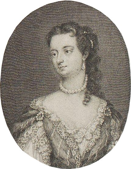 Portrait of Lady Mary Wortley Montagu from Margaret Cavendish (Harley), Duchess of Portland; William Bentinck, 2nd Duke of Portland; Lady Mary Wortley Montagu, by George Vertue (died 1756). All images in this batch have been confirmed as author died before 1939 according to the official death date listed by the NPG.